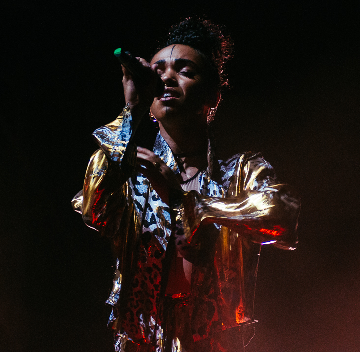 fka-twigs-laneway-festival-singapore-2015